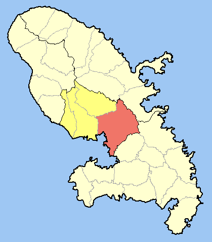 Location of Le Lamentin within Martinique